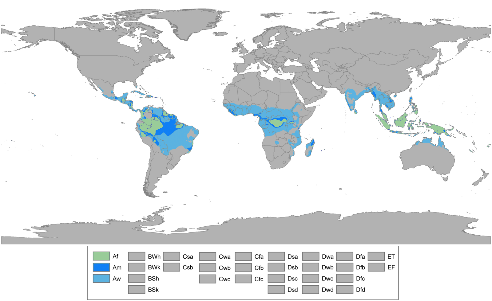 Updated world map of the Köppen-Geiger climate classification. GROUP A: Tropical climates (all twelve months have mean temperatures above 18 °C) Am (tropical monsoon), Aw (tropical savanna) in blue colors, but Af (tropical rainforest) in grey-green.